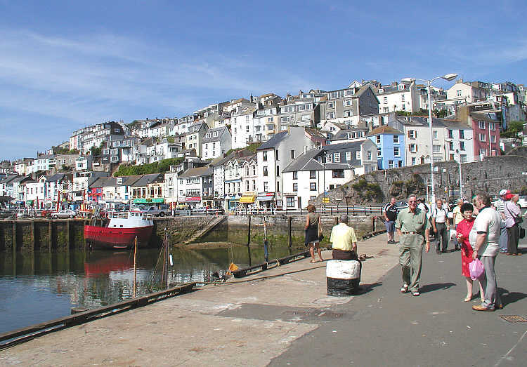 Brixham, South Devon.